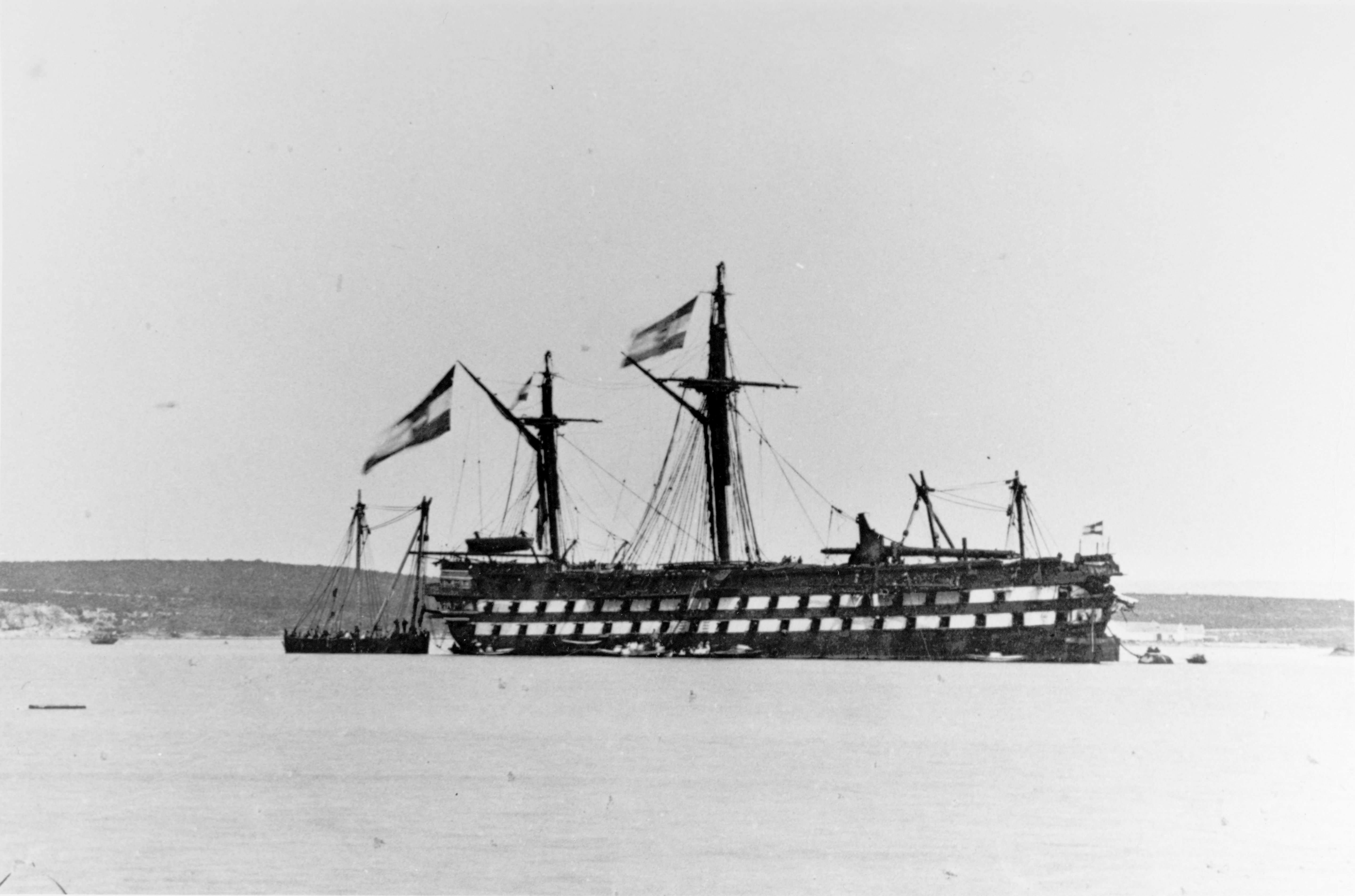 The SMS Kaiser at Lissa in the aftermath of the battle, undergoing repairs. Cropped by uploader.